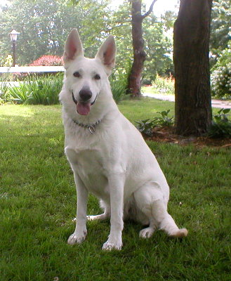 UKC Ch. Regalwise Dot Com Kerstin, HIC, CGC, TDI, OFA H&E, MDR1 Owner: Alicia Lips (Kerstone Shepherds) Breeder: Ronda Beaupre (Regalwise Shepherds)